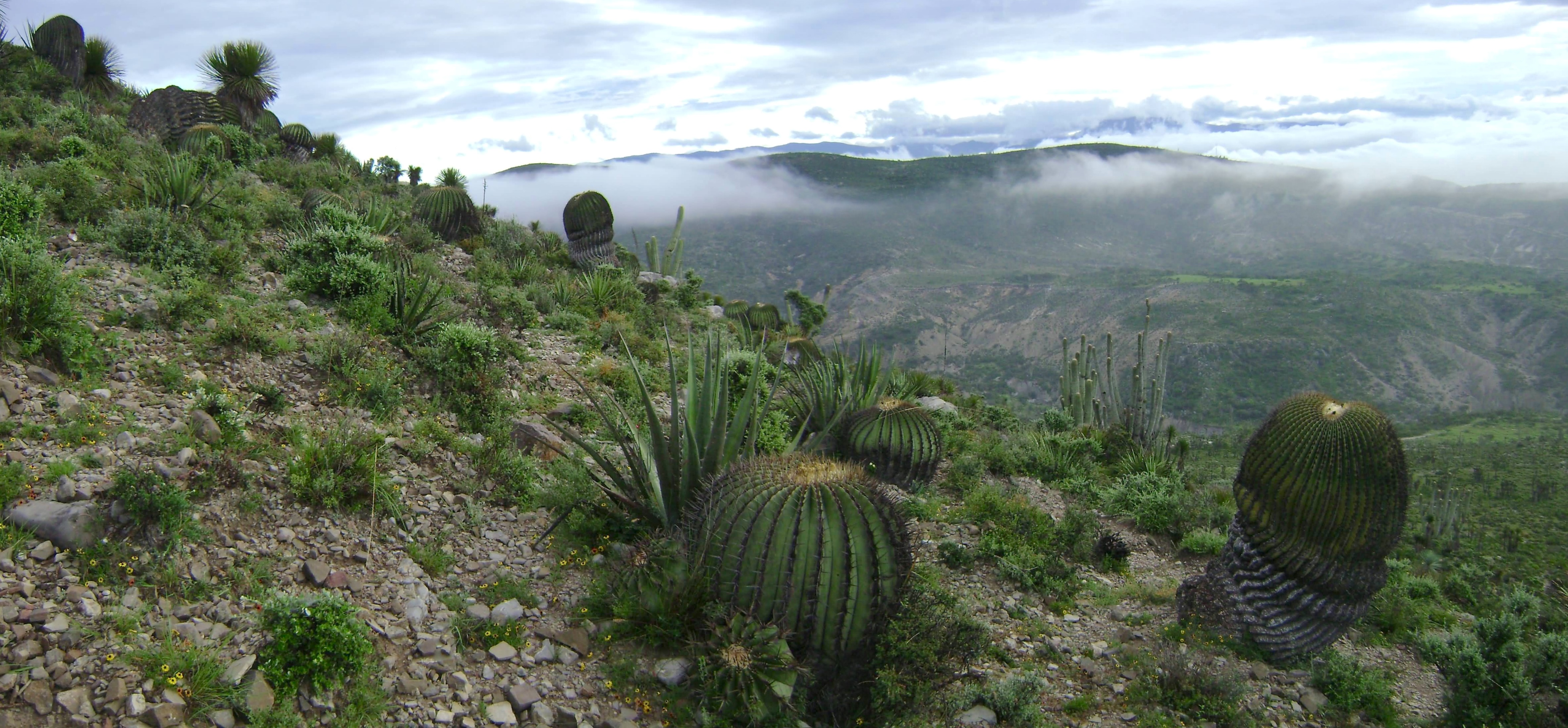 The landscape of the xeric Tehuacán Valley matorral ecoregion, near San Antonio Texcala in Puebla state, Central México. Within the Tehuacán-Cuicatlán Biosphere Reserve.